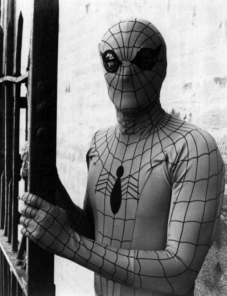 Photo of Nicholas Hammond as Spider-Man from the television program The Amazing Spider-Man.